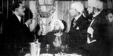 A photograph of Naguib el-Rihani and some other actors from a play entitled "Kishkish bey fi Paris" (Kishkish bey in Paris), which played during February 1917.